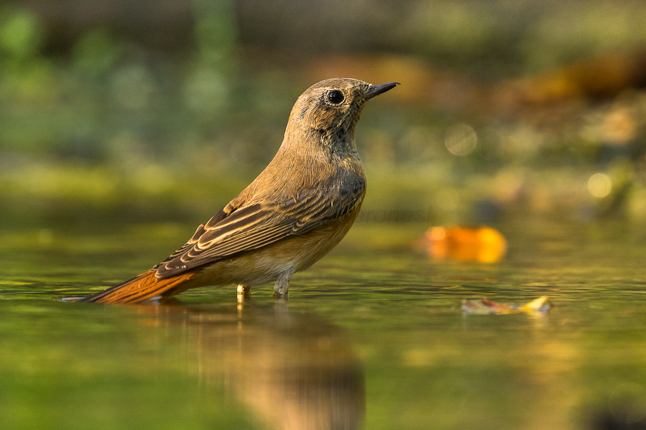 Common Redstart - Castelletto Merli - Italy_FJ0A2801